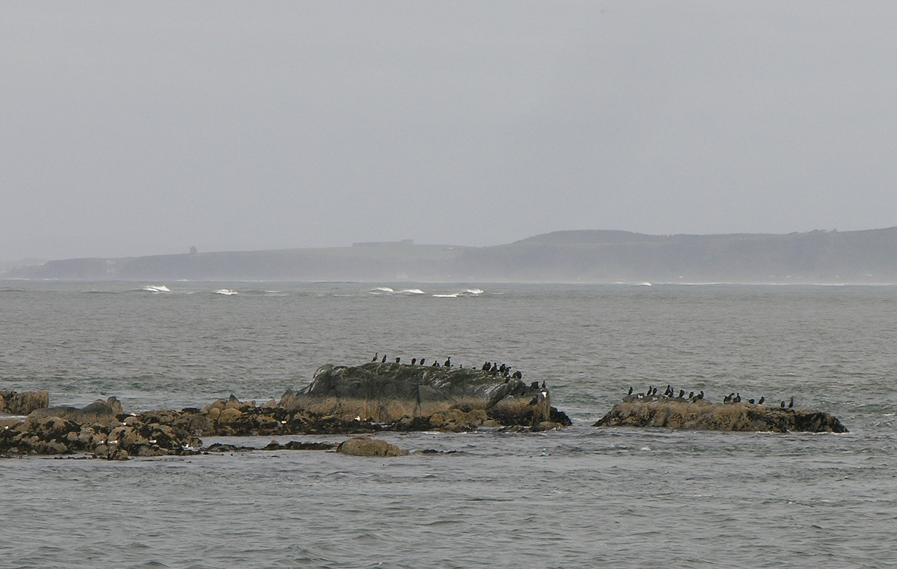 Green Cormorants Greencastle Donegal - Mussenden Temple just visible across the Foyle.